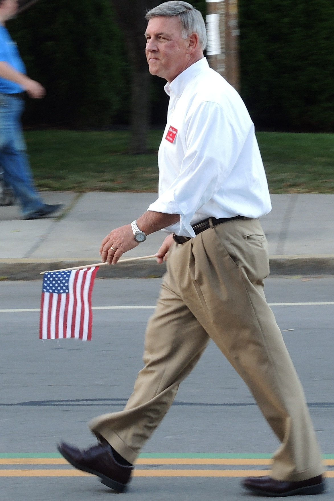 Rich Funke in the 2014 Labor Day parade in Rochester, New York